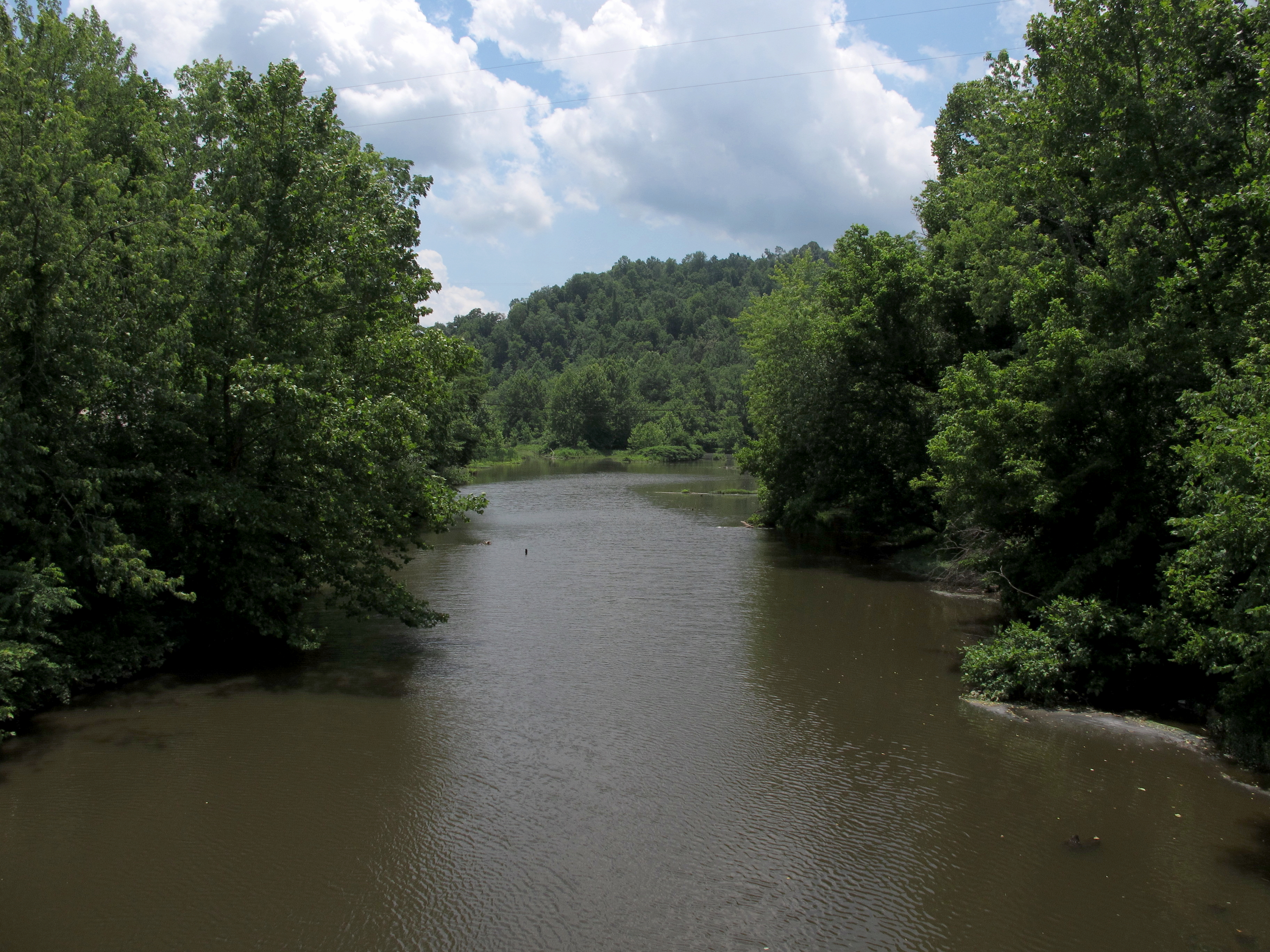 McKim Creek as viewed upstream from County Road 3 in Union Mills in Pleasants County, West Virginia.